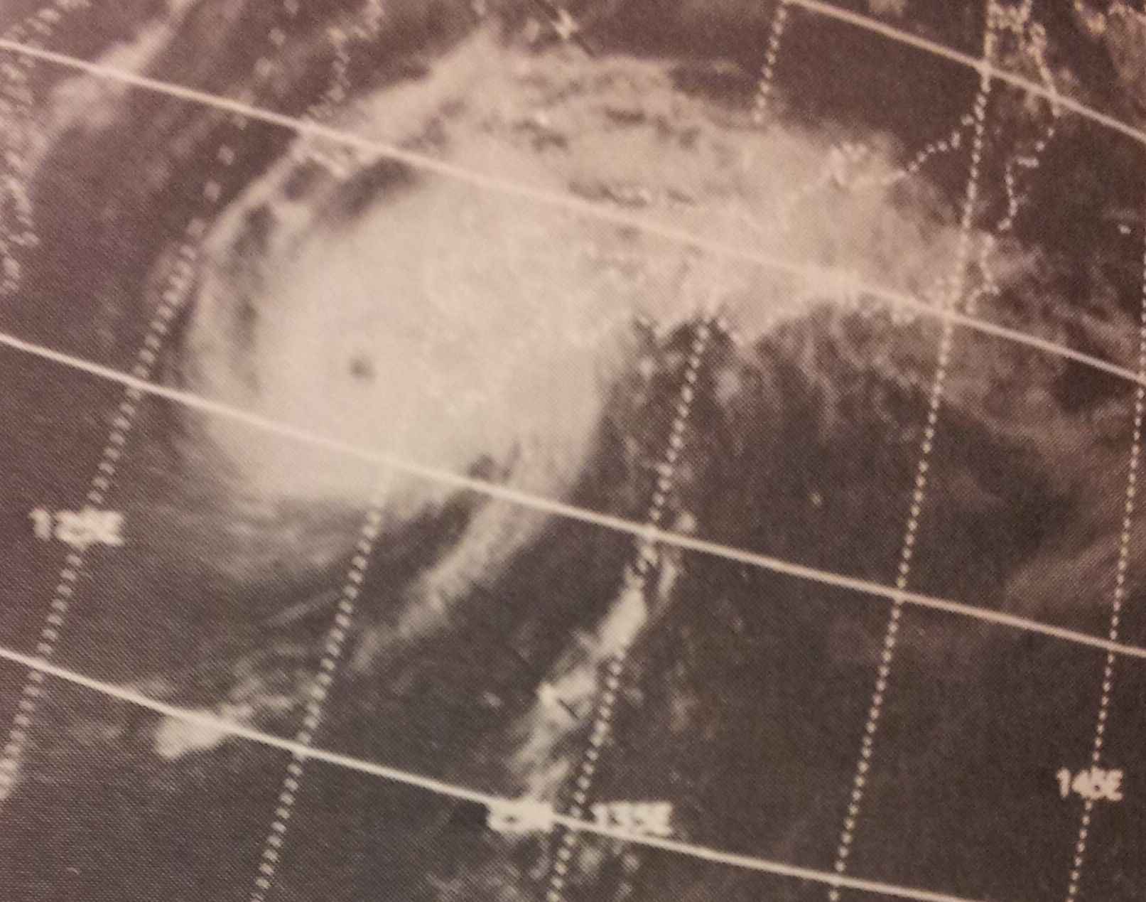 This satellite picture of Typhoon Wilda was taken by the ITOS 1 weather satellite on August 14, 1970 at 0558 UTC.